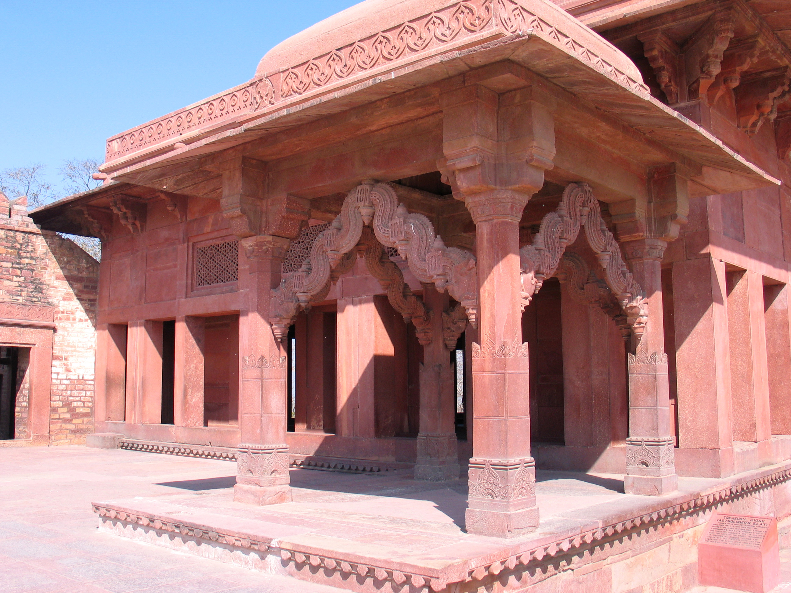 Astrologer's Seat, Fatehpur Sikri, Uttar Pradesh, India